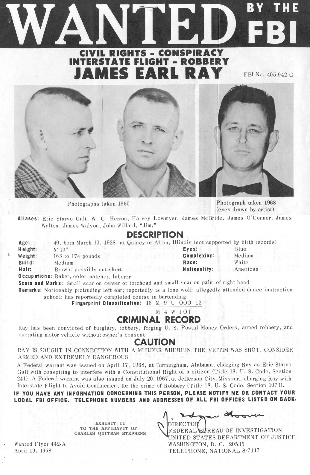 FBI Wanted Poster